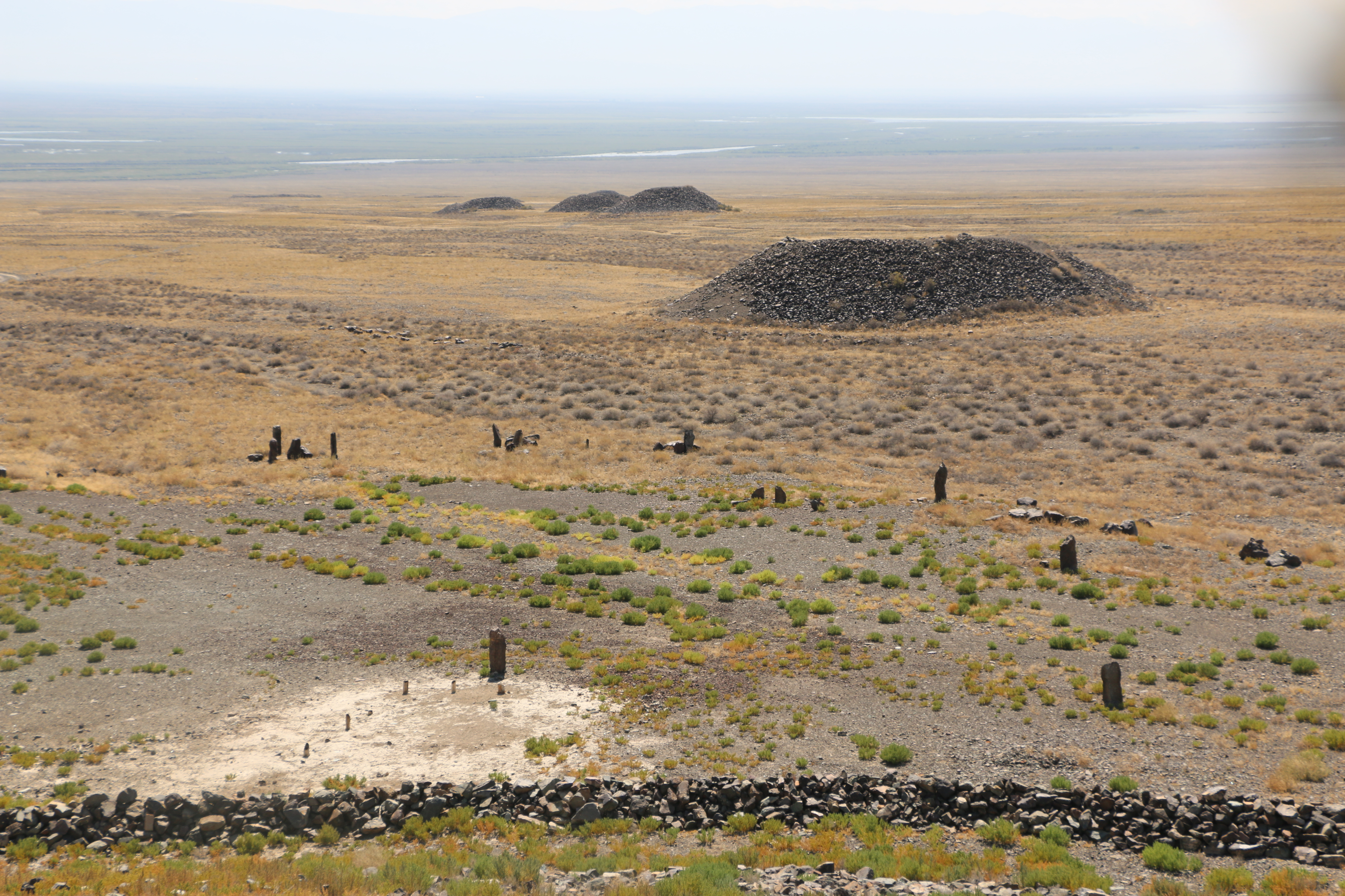 Besshatyr